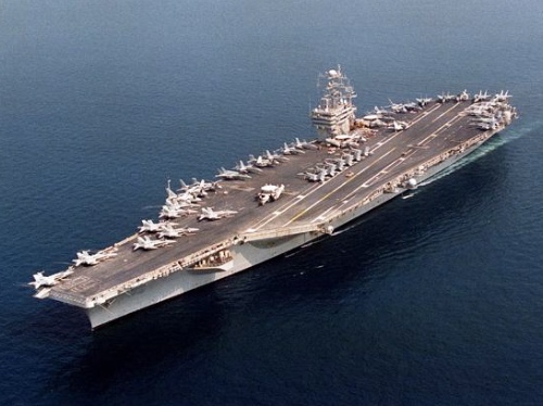 PD Navy photo of USS Nimitz (CVN-68) at sea near the Persian Gulf 12 Oct 1997. This is a little low-res and lacks details - something around 200k-300k would be better for study.)